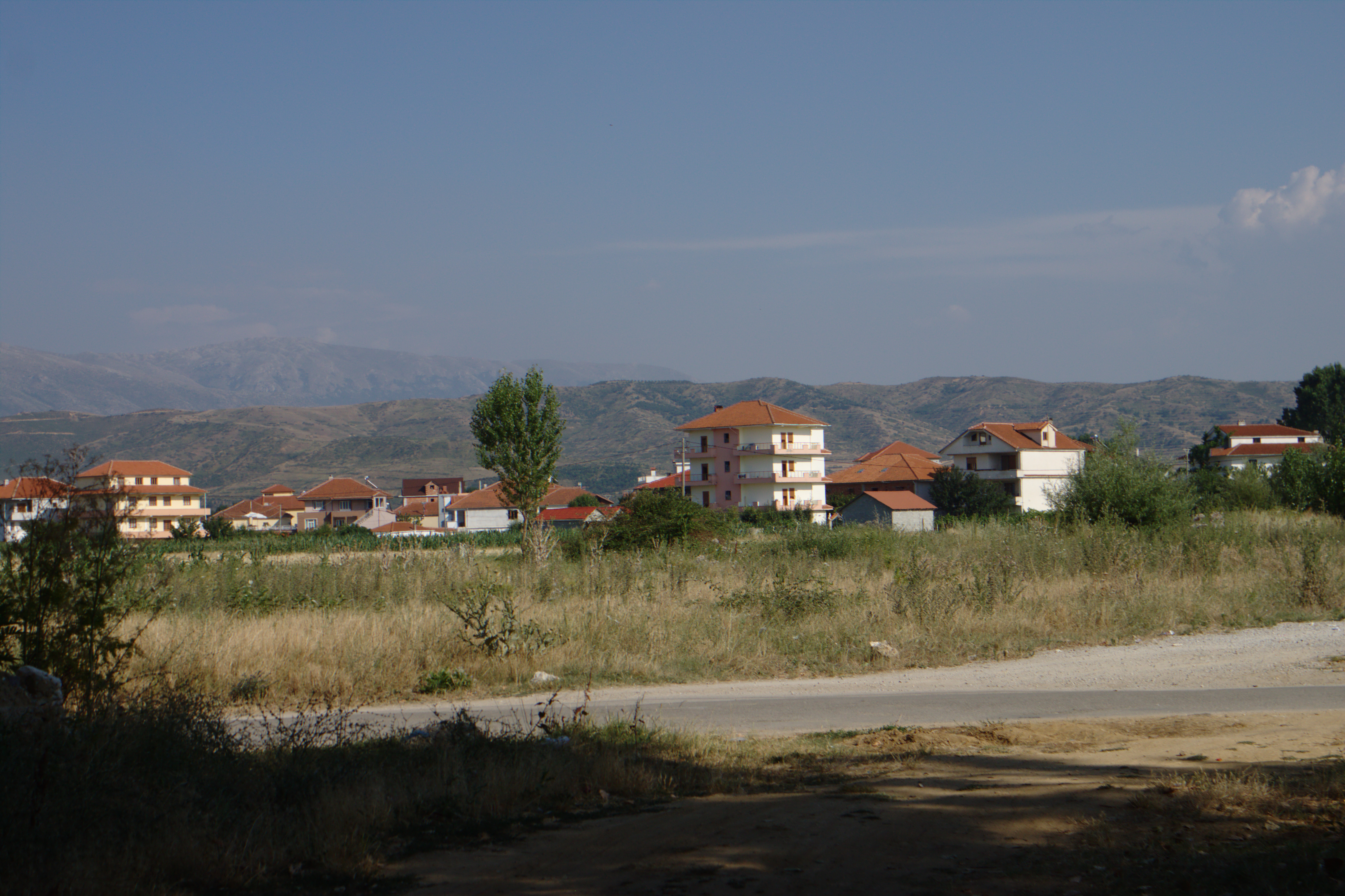 Buildings at the western edge fo the town of Pogradec, Albania